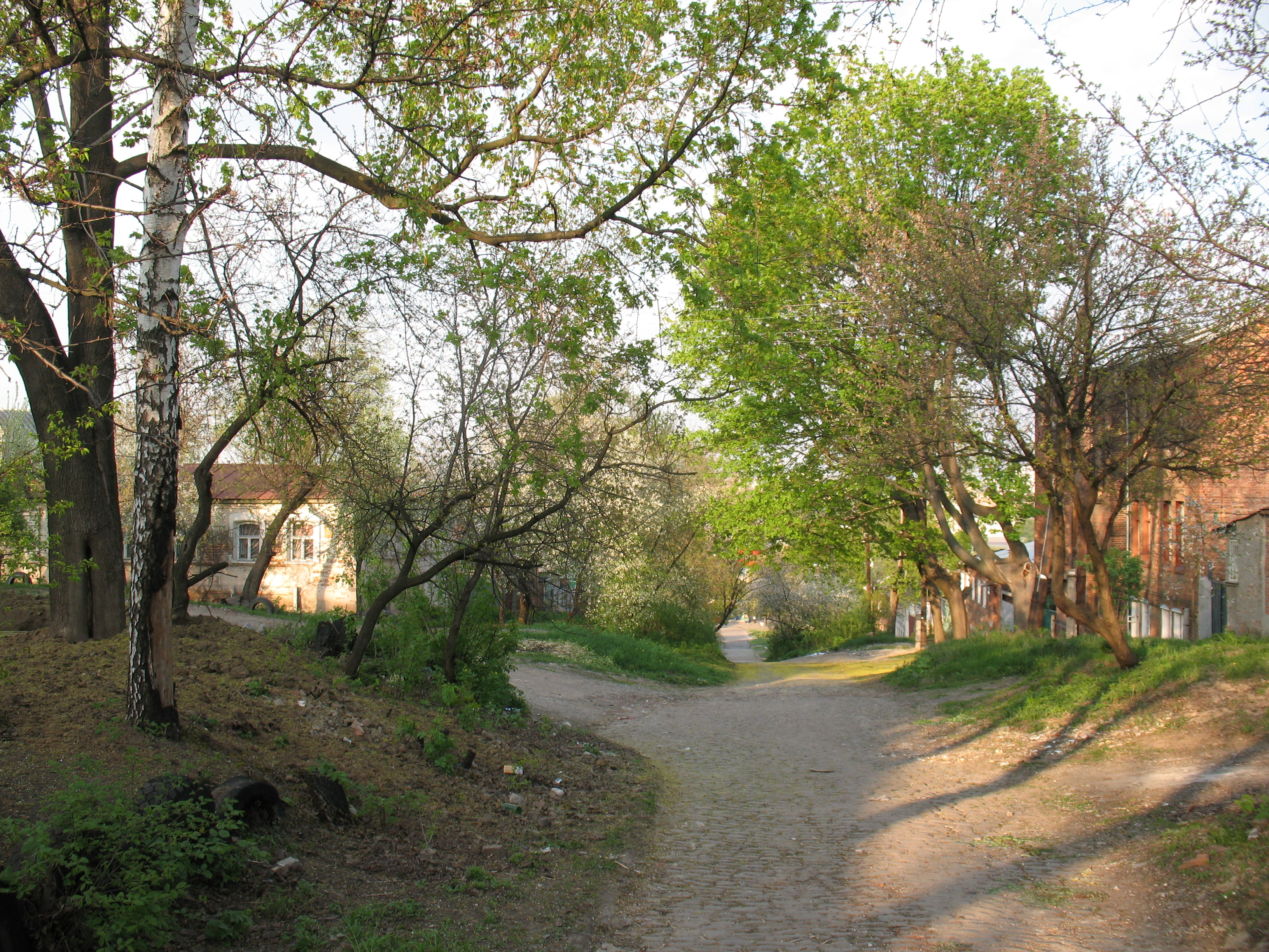 Kharkov City. Spring street. Cold Gora.